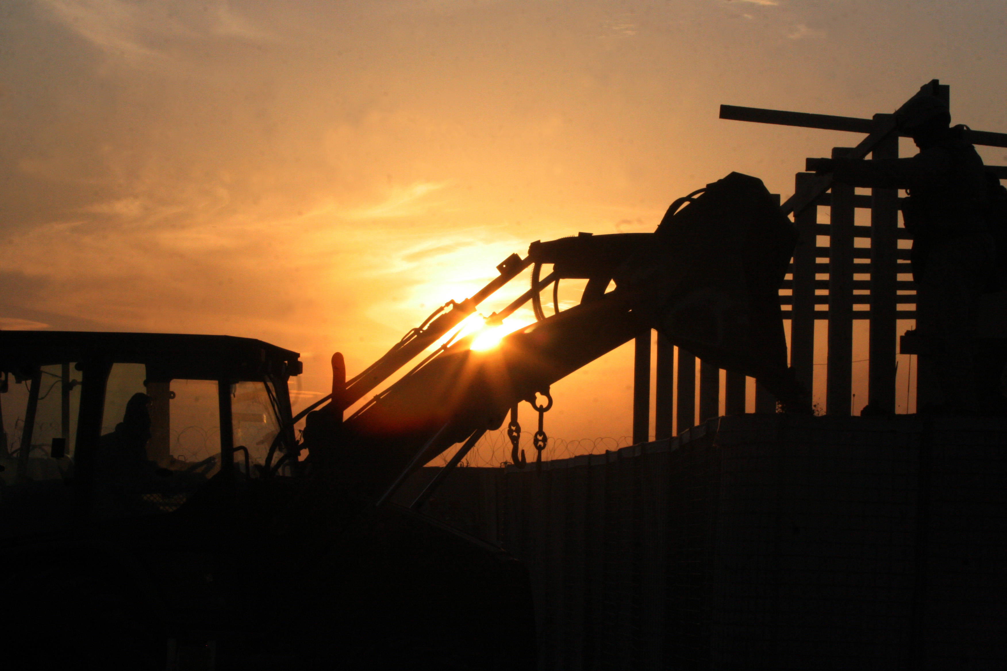 Caption: A U.S. Marine with Operations Platoon, Engineer Company, Combat Logistics Battalion 5, 1st Marine Logistics Group (Forward) directs a backhoe to drop dirt into Hesco barriers that surround the above ground trench outside Entry Control Point 7 near the edge of Fallujah, Dec. 21, 2006. Location FALLUJAH ENTRY CONTROL POINT 7, ANBAR IRAQ 3)